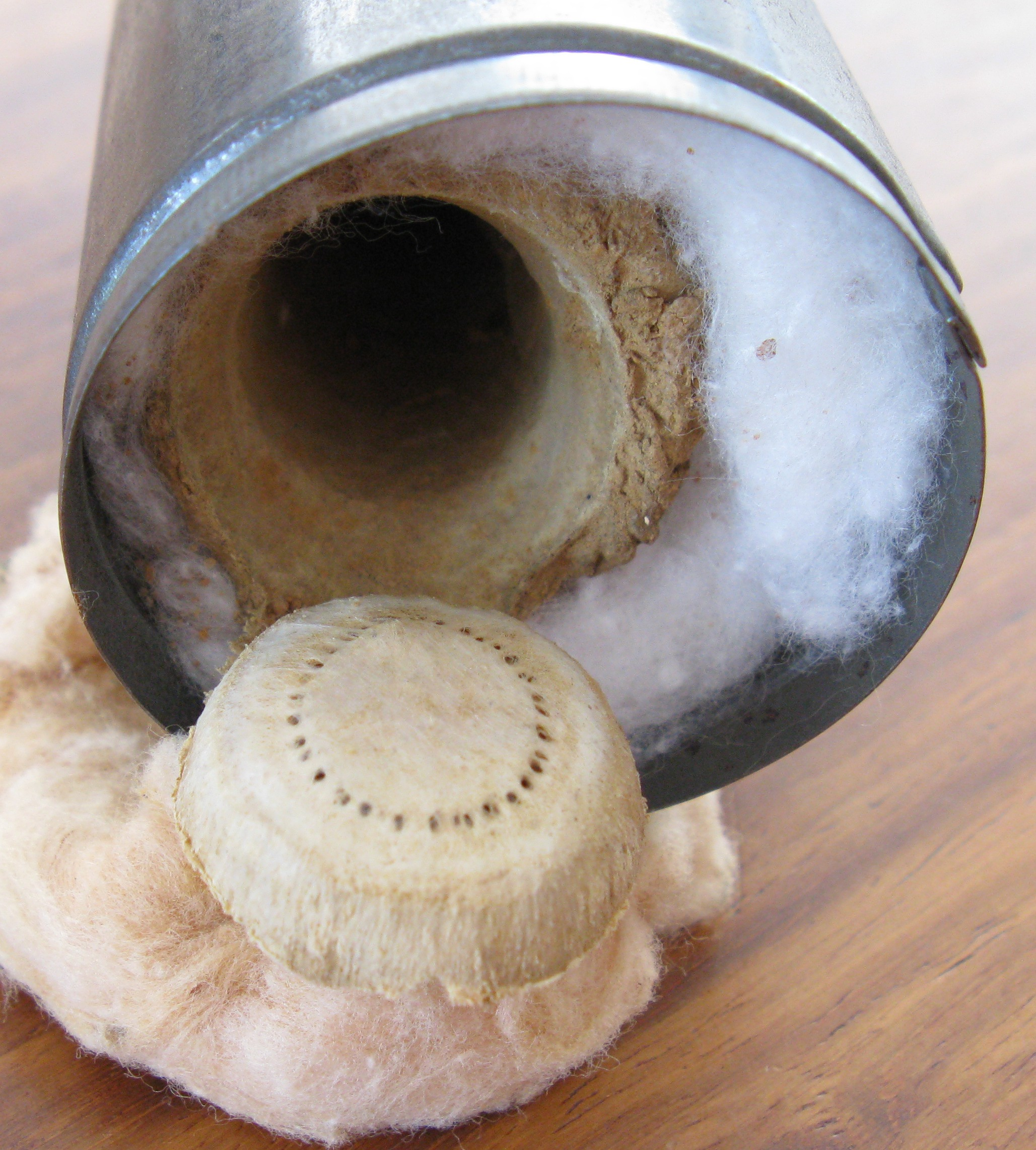 Ctenizidae, probable genus: Stasimopus. Cork-lid Trapdoor spider burrow saved intact in baking powder tin ca late 19th century